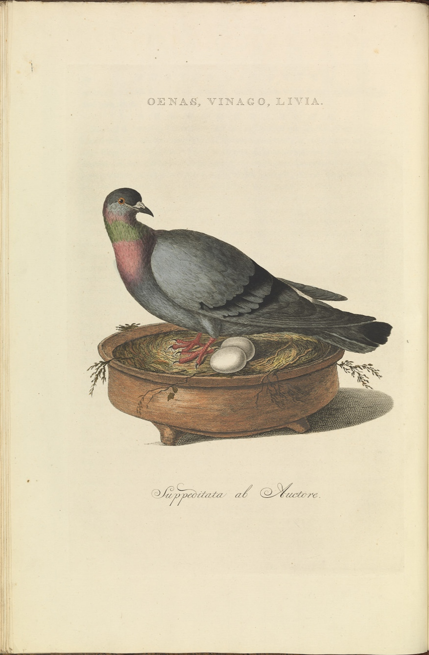 Plate 7 from the Nederlandsche vogelen by Nozeman and Sepp.